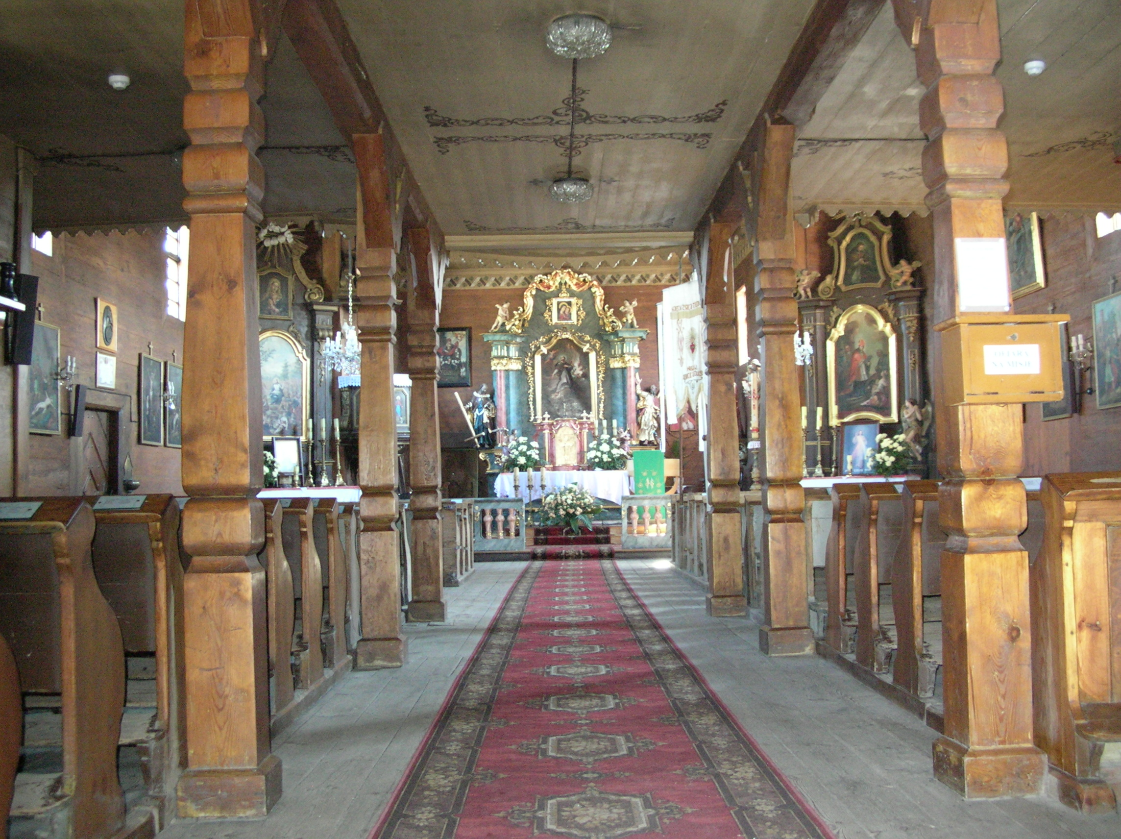 Church in Wisła Mała, interior